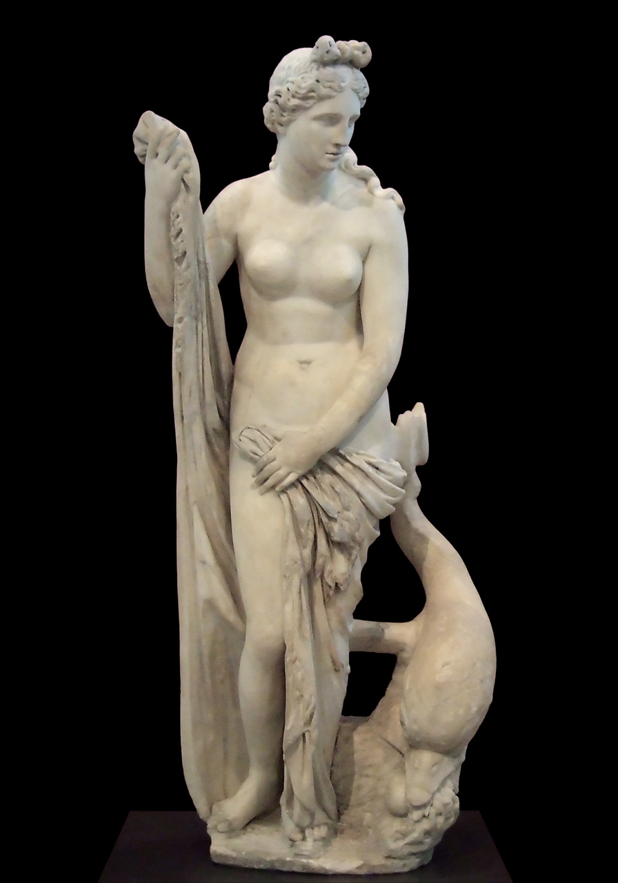 Statue of Venus, Roman Copy of Greek original by Praxiteles. Getty Museum, Los Angeles. Distracting background masked out and levels adjusted. Fuji F11 Camera at ISO 1600.